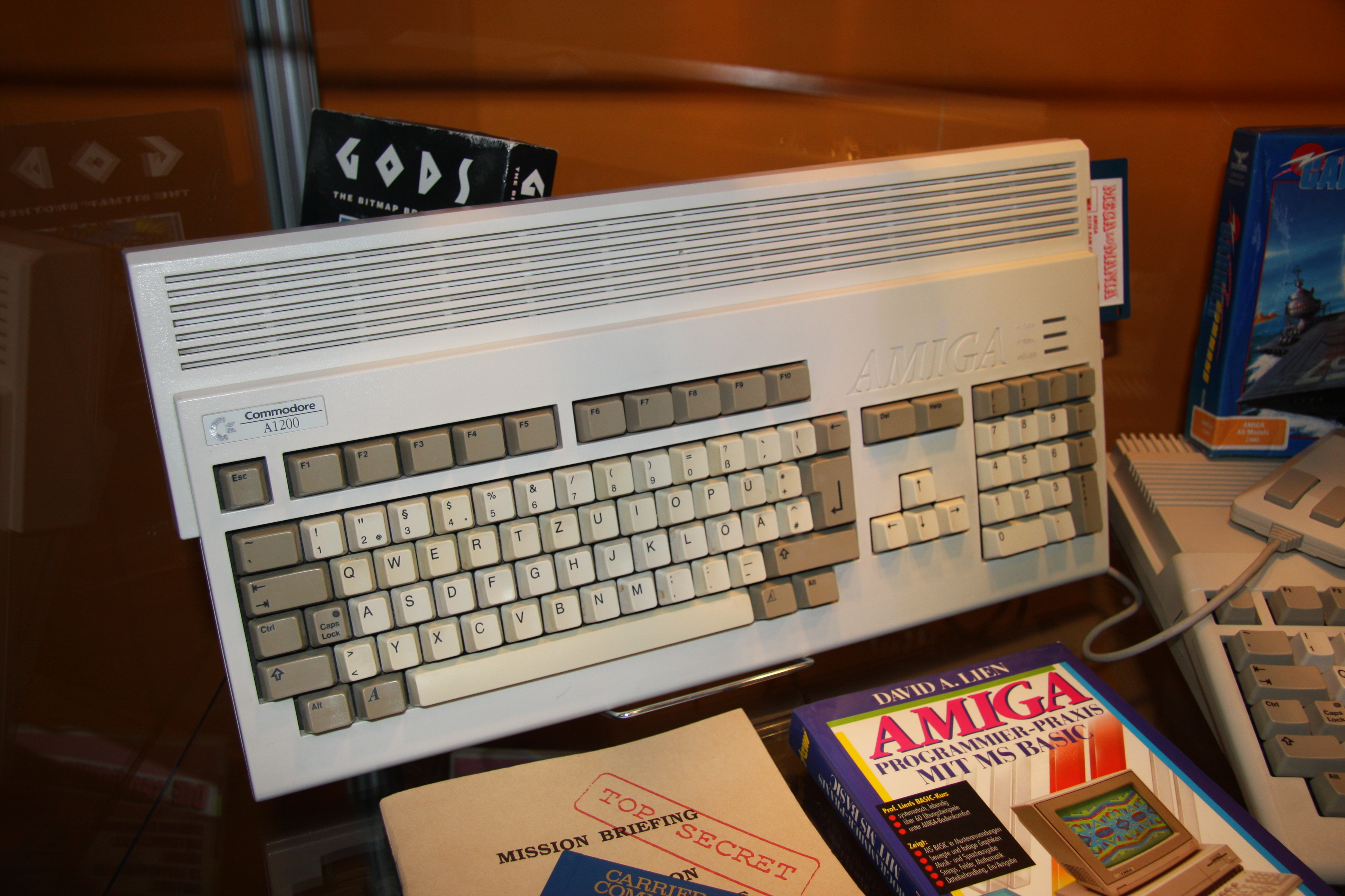 An Amiga 1200 by Commodore exhibited at the Gamescom 2009